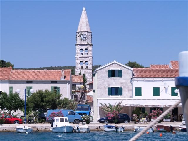 turanj ( sv. filip i jakov )